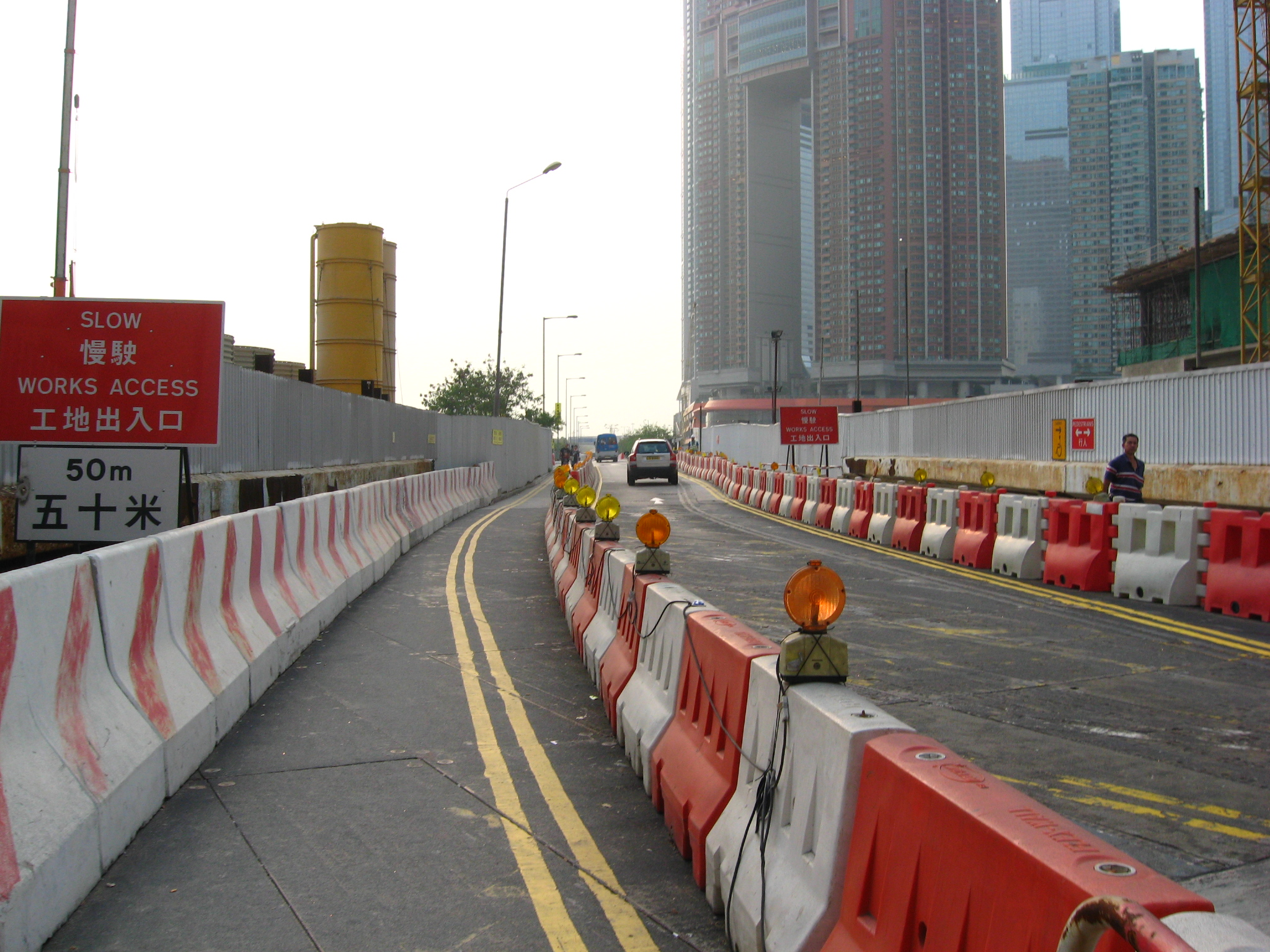 Austin Road West